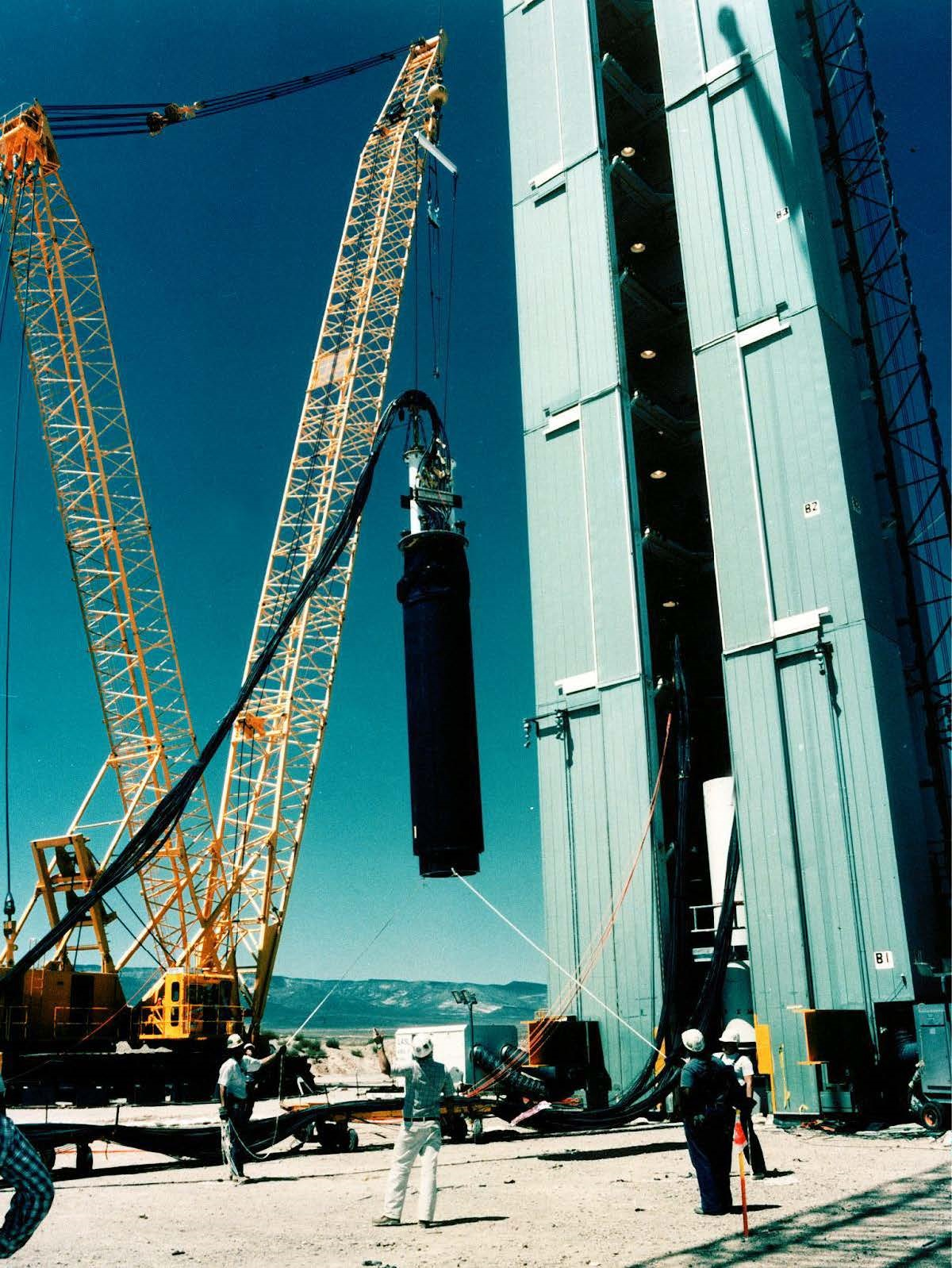 Researchers from the Los Alamos National Laboratory lowering equipment for the September 1992 “Divider” nuclear test.